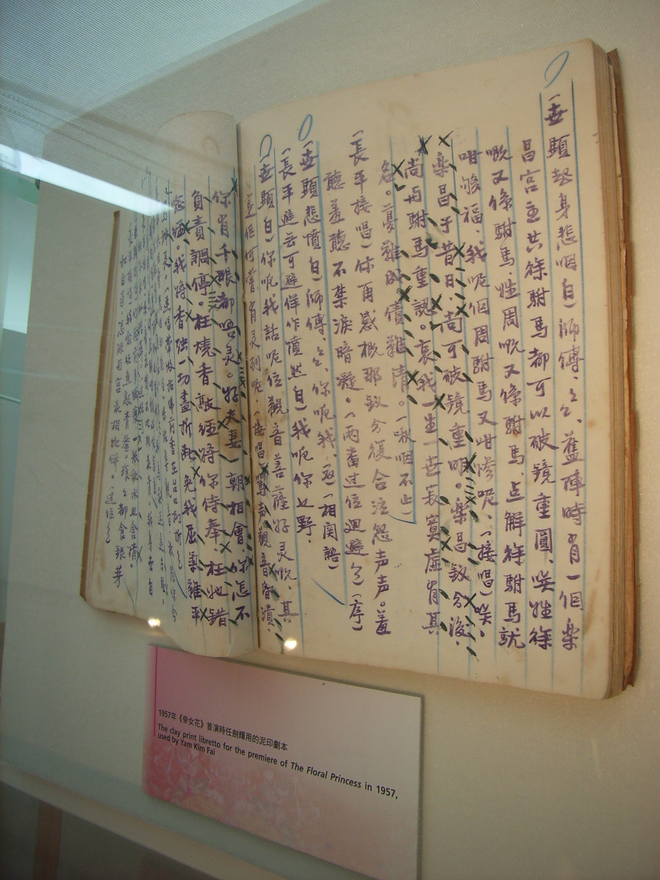 任劍輝和白雪仙的粵劇戲寶 1957年首演 帝女花: 樹盟 Oath under the twins tree 辭殿 Depature 香劫 Princess' sufferings 庵遇 Reunion at the nunnery 上表 Negotating with the Qing Emperor 香夭 The fragrant death 殉國